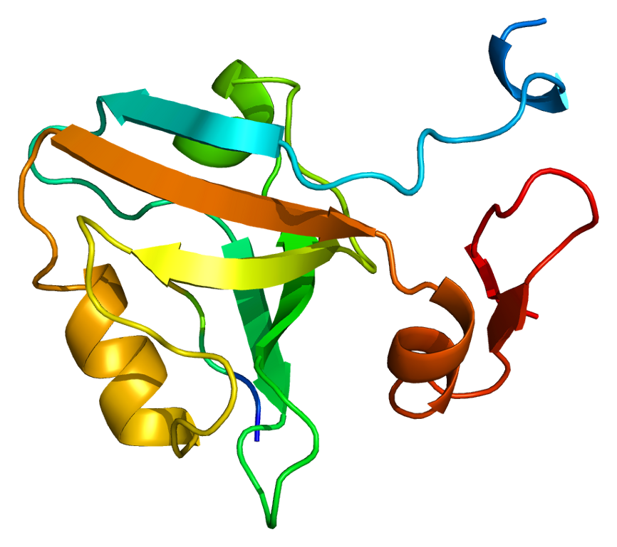 Structure of the DLG4 protein. Based on PyMOL rendering of PDB 1be9.